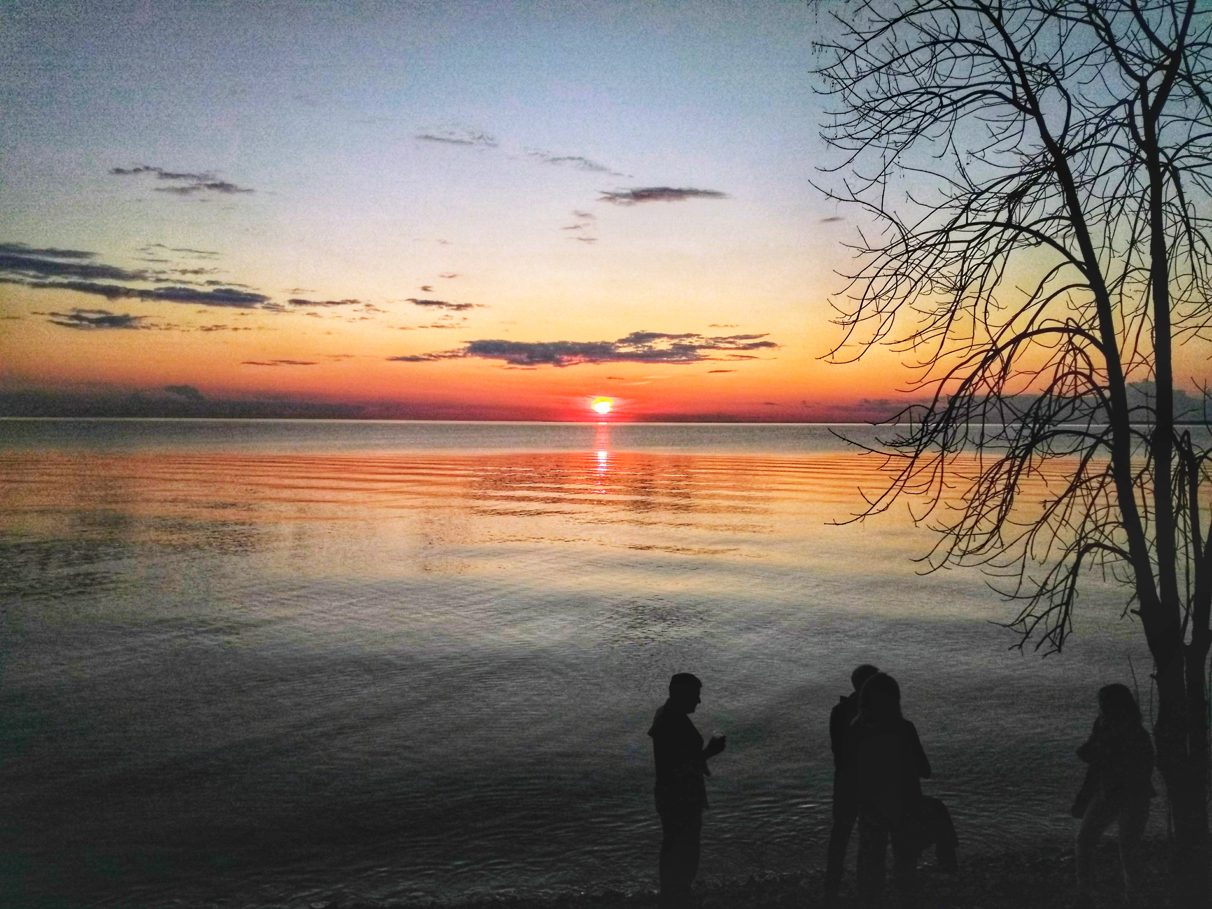 Sunset over Green Bay at Peninsula Players Theater Fish Creek Wisconsin August 2019